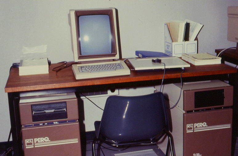 Two ICL PERQ 1 workstation computers, Department of Computer Science, North Machine Hall, James Clerk Maxwell Building, University of Edinburgh.